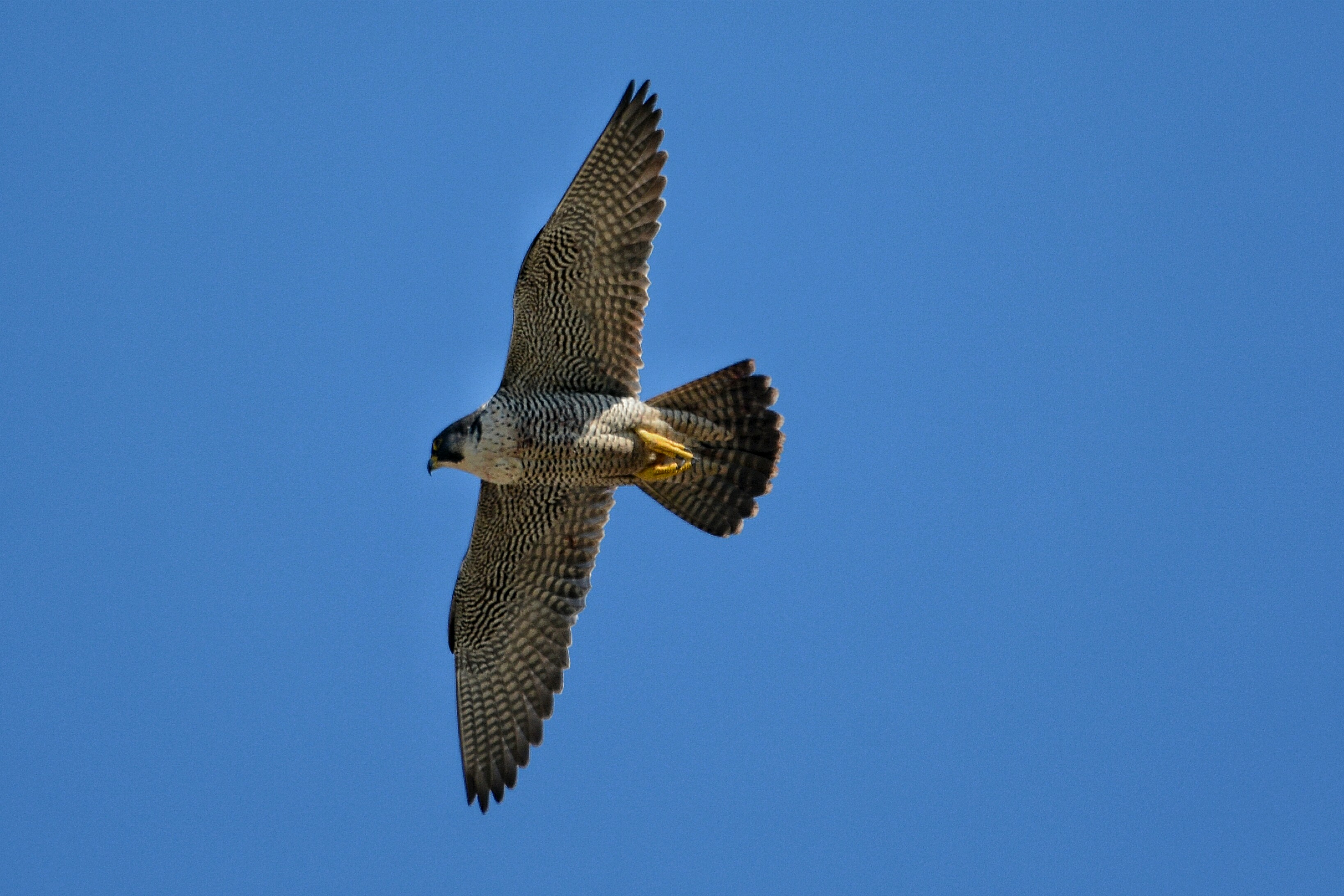 A Peregrine Falcon flying in England.